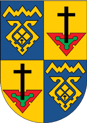 Togliatti (Samara oblast), ceremonial coat of arms